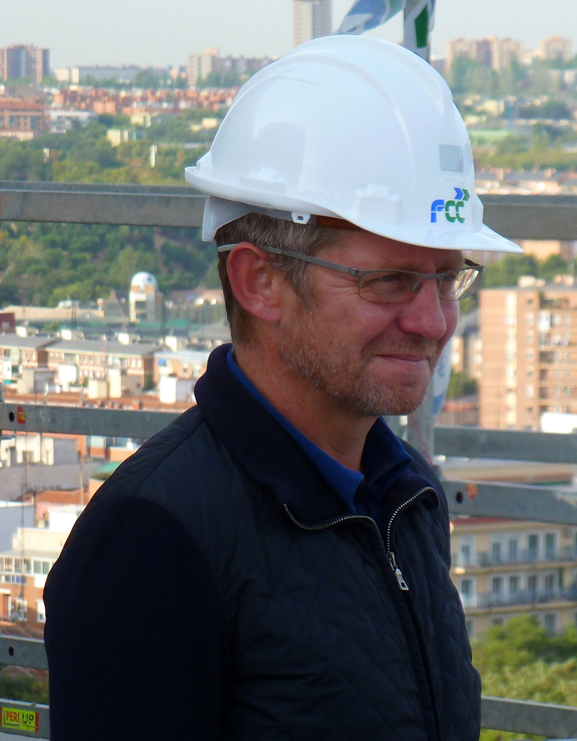 Luis Moreno Mansilla, spanish architect, 1959 - 2012.